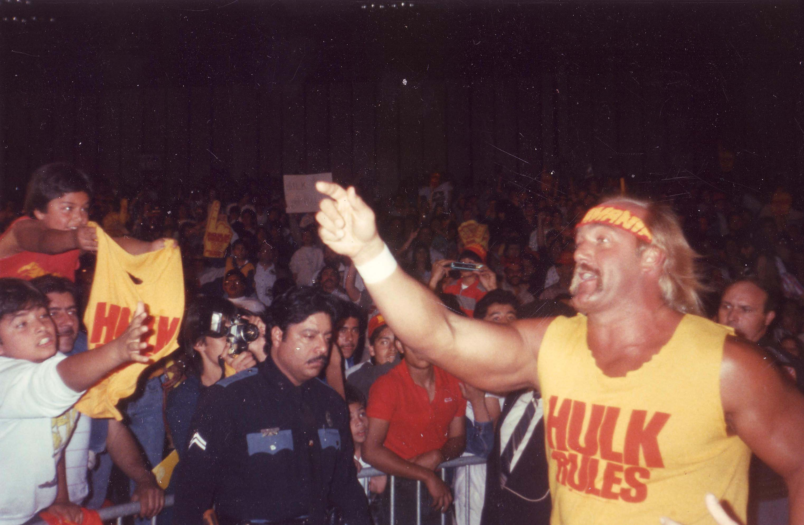 Professional wrestler Hulk Hogan during the late 1980s